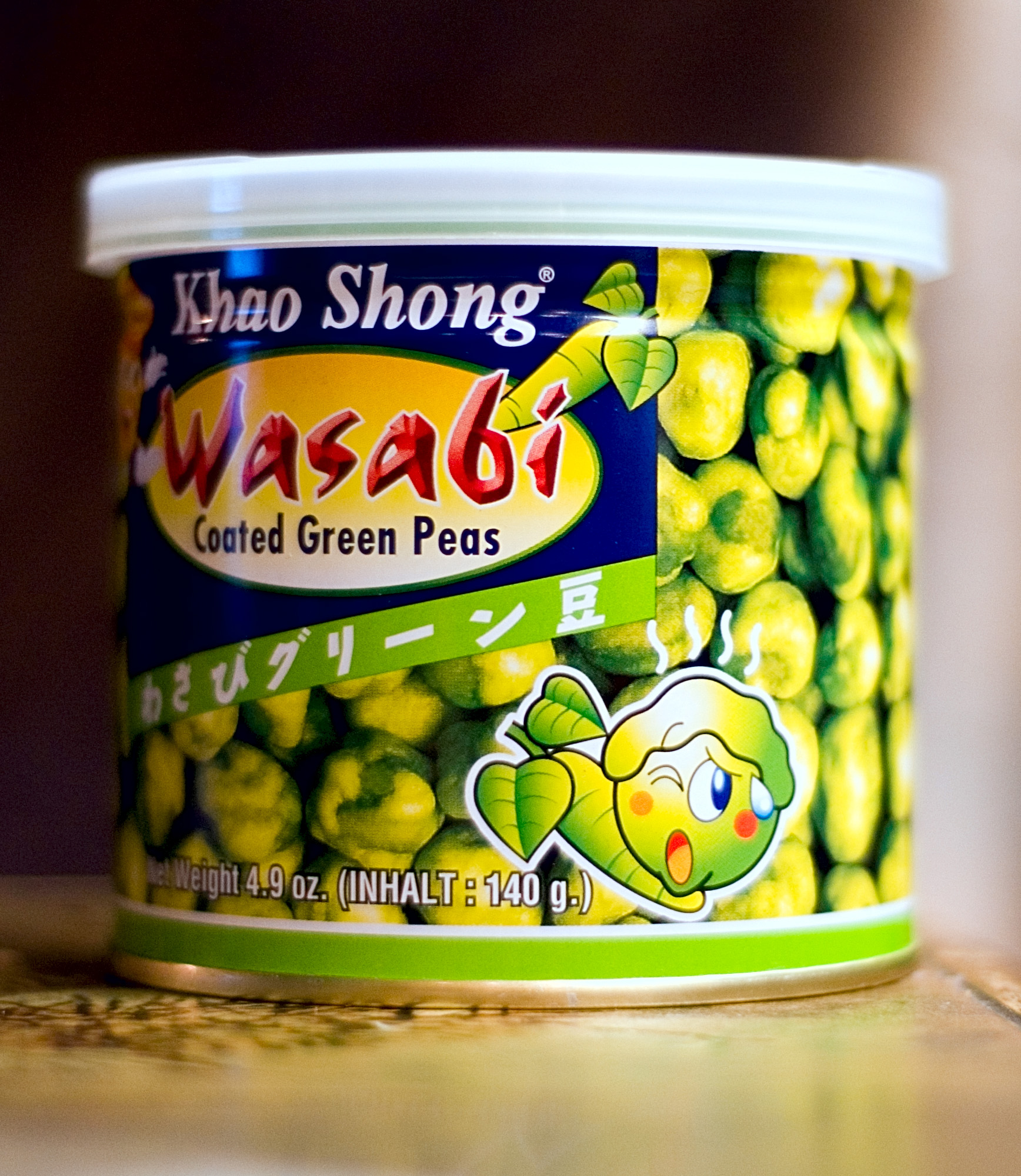 Wasabi coated green peas